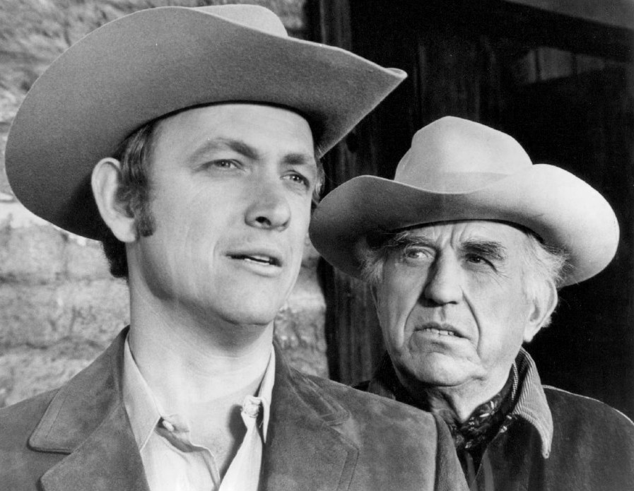 Photo of Monte Markham (left) and Ed Begley as guest stars on the television program The Mod Squad.